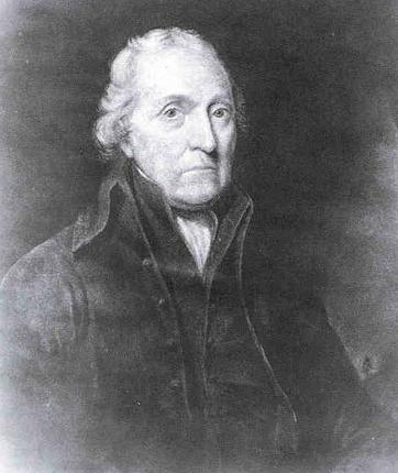 Samuel Smith